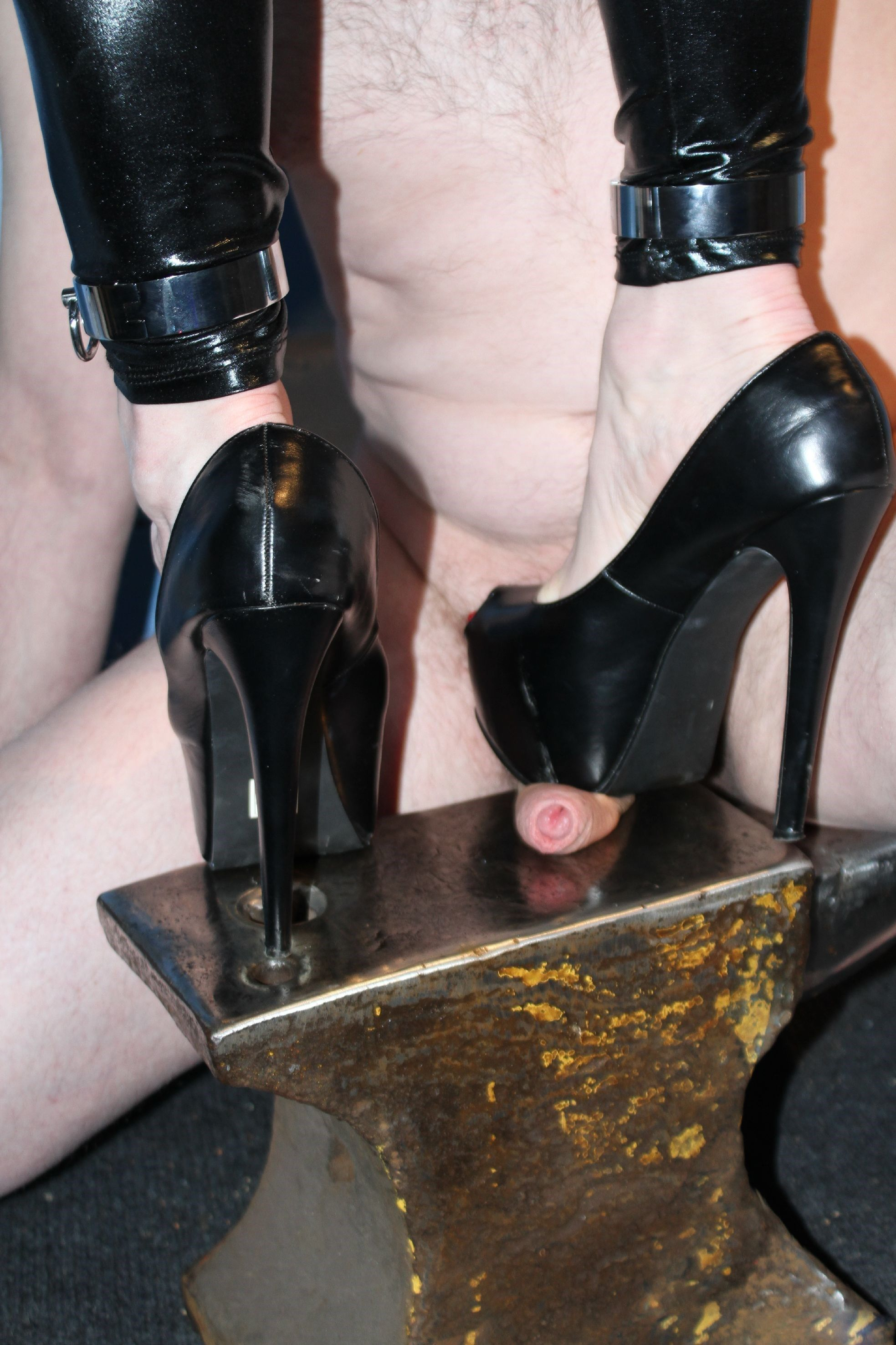 Woman trampling on a man's penis.